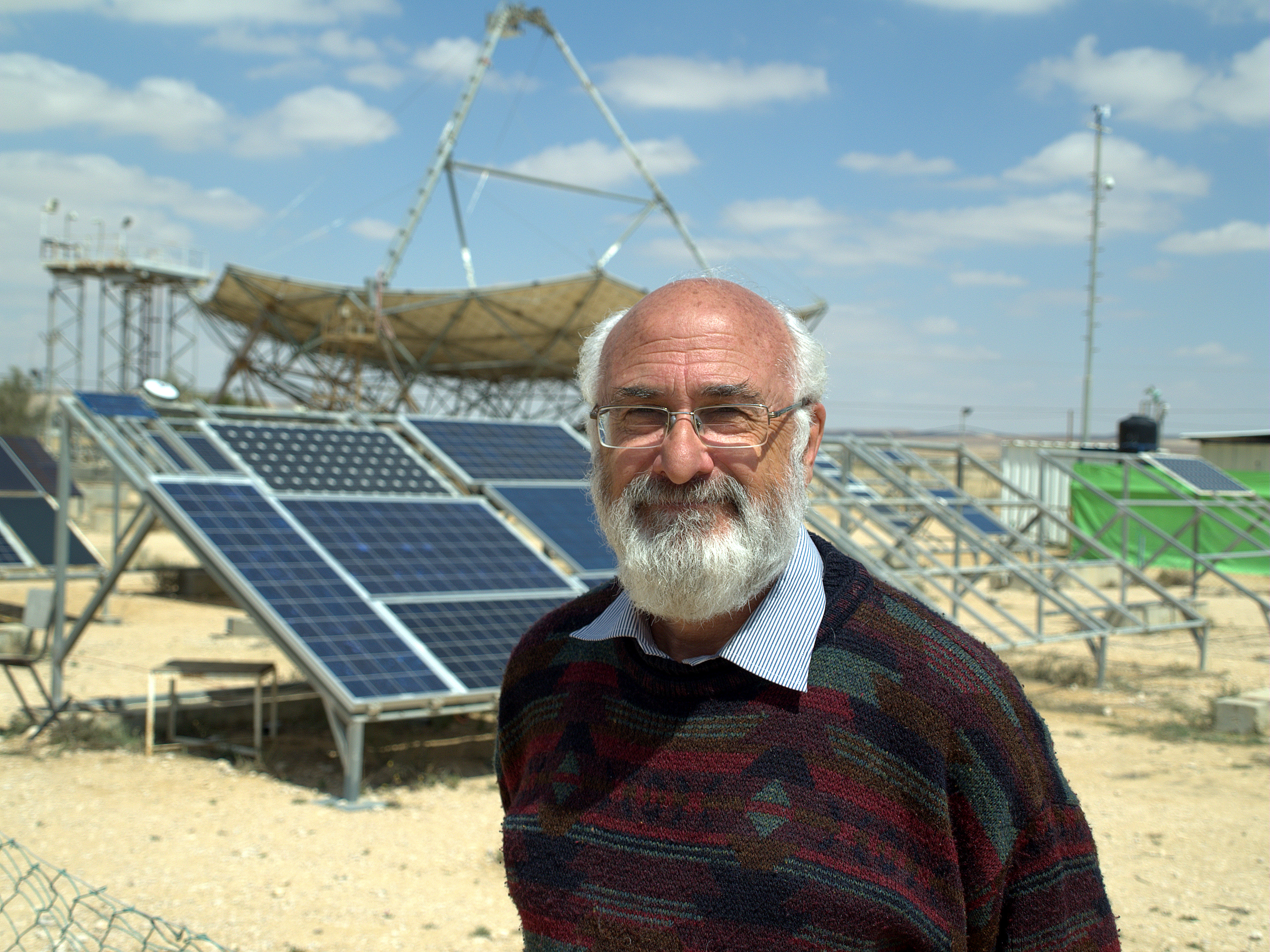 David Faiman, director of the Ben-Gurion National Solar Energy Center and Chairman of the Department of Solar Energy & Environmental Physics at Ben-Gurion University's Jacob Blaustein Institutes for Desert Research in Sde Boker. Read photographer's blogpost about the experience.